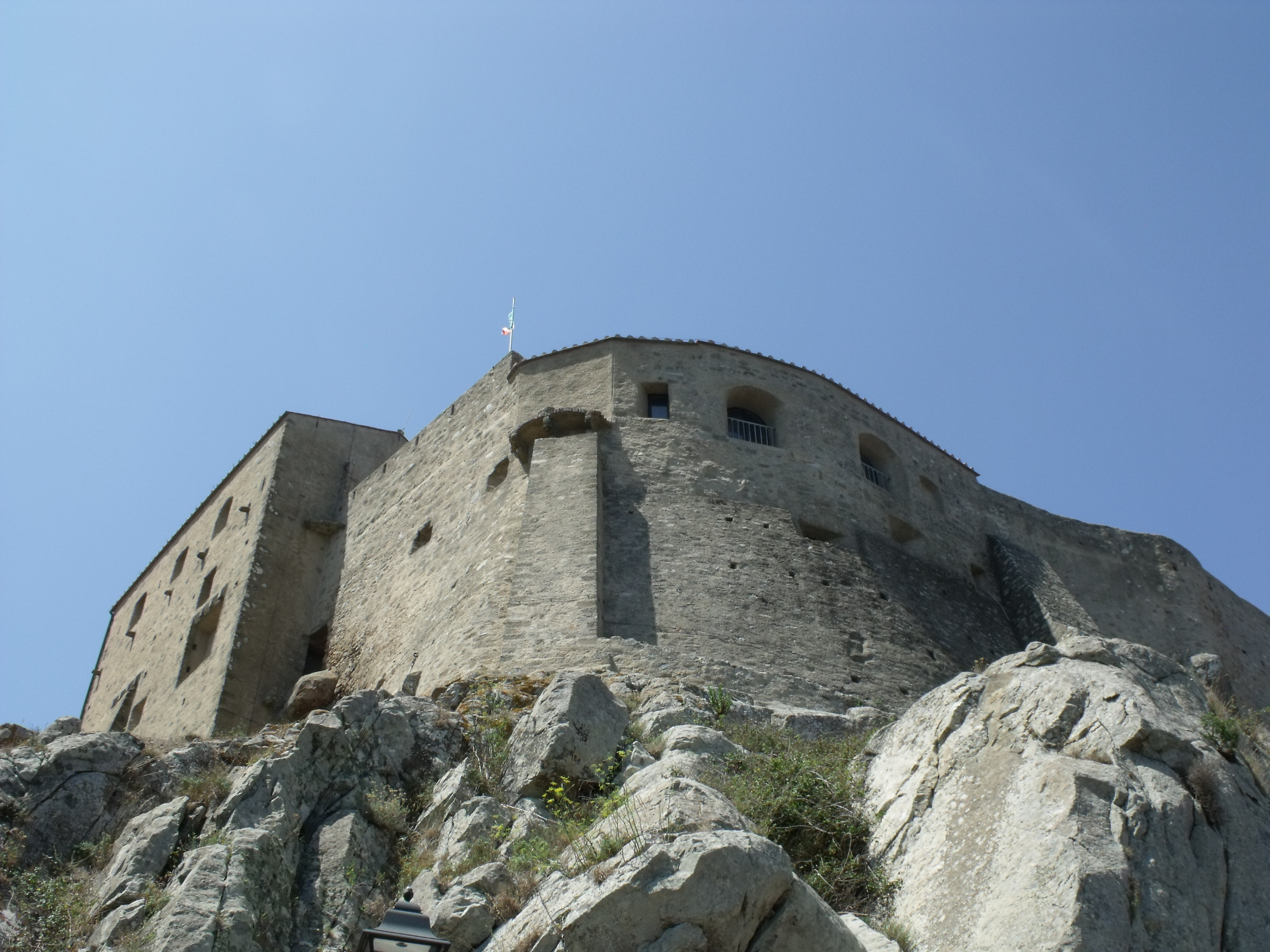 Rocca Pisana in Giglio Castello, Isola del Giglio, Province of Grosseto, Tuscany, Italy